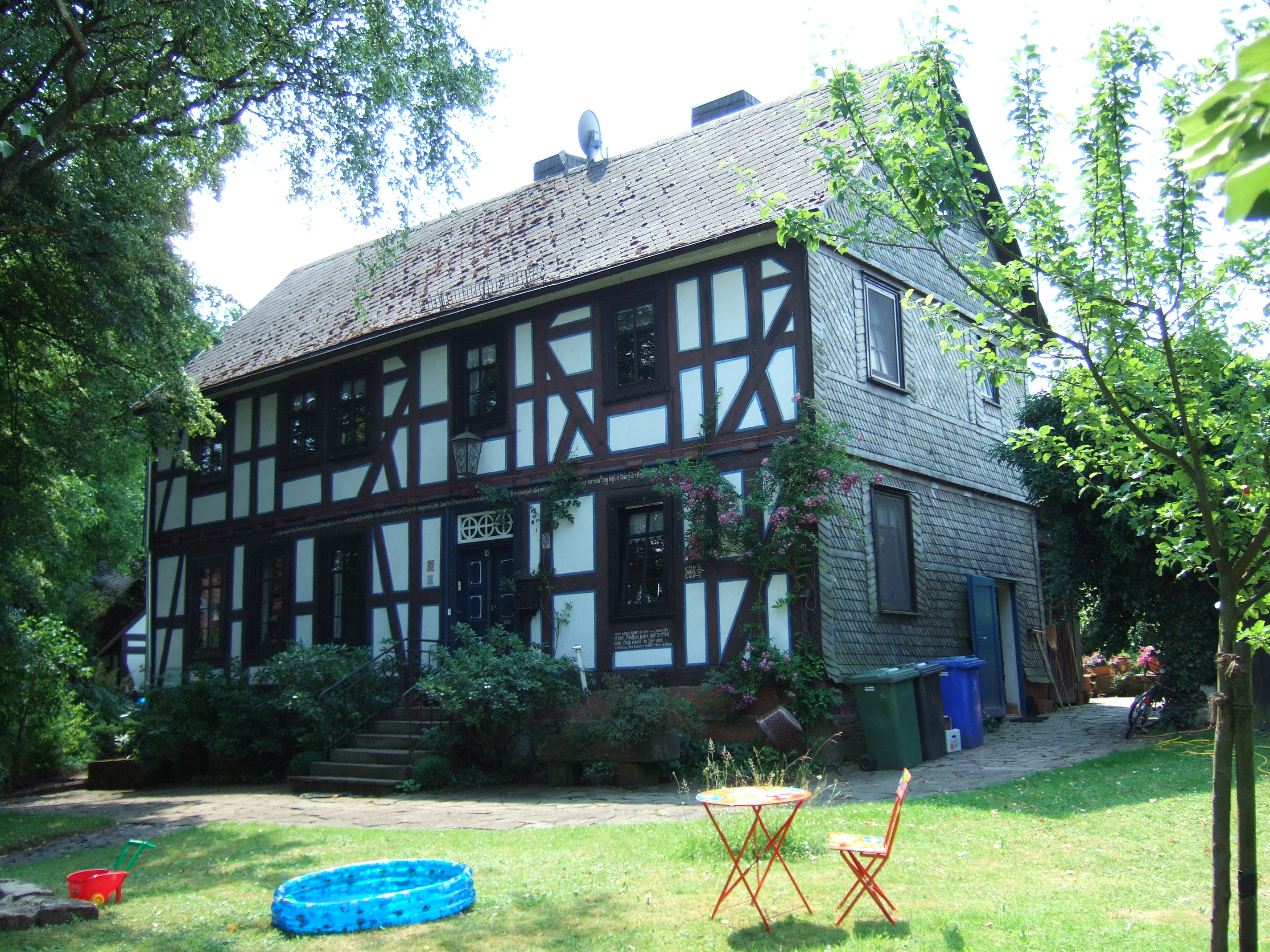 Old schoolhouse in Burgwald-Wiesenfeld, Germany